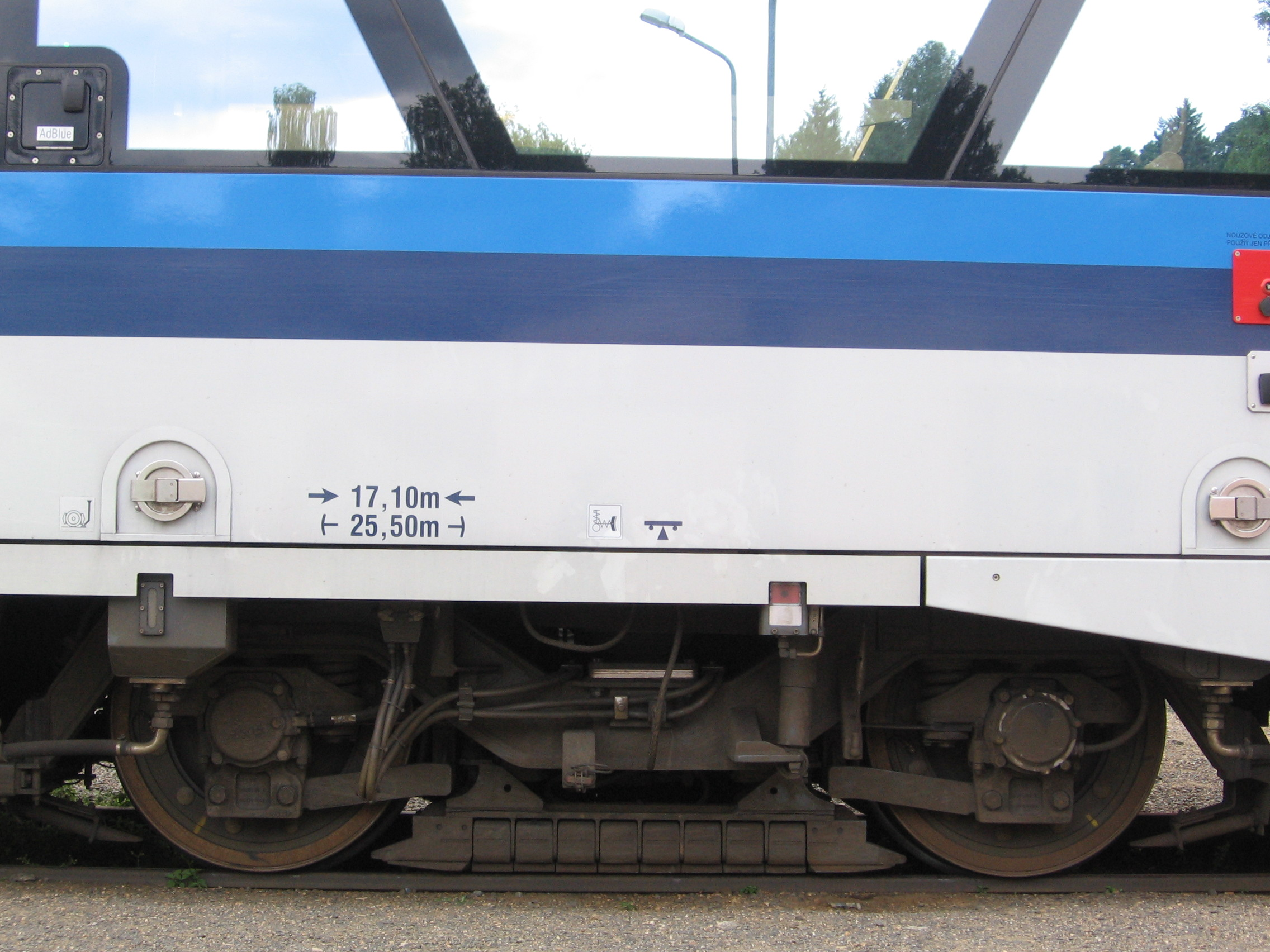 Bogie of ČD railcar 840.010